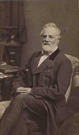 Troels Caspar Daniel Marstrand (1815-1889), Danish industrialist and politician